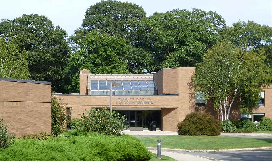 Front of Dolan School of Business at Fairfield University in Fairfield, Connecticut, USA.